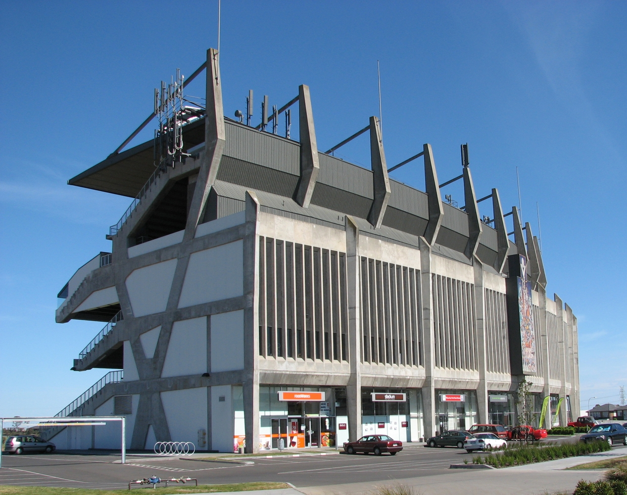 Sir Kenneth Luke Stand at Waverley Park, Melbourne.